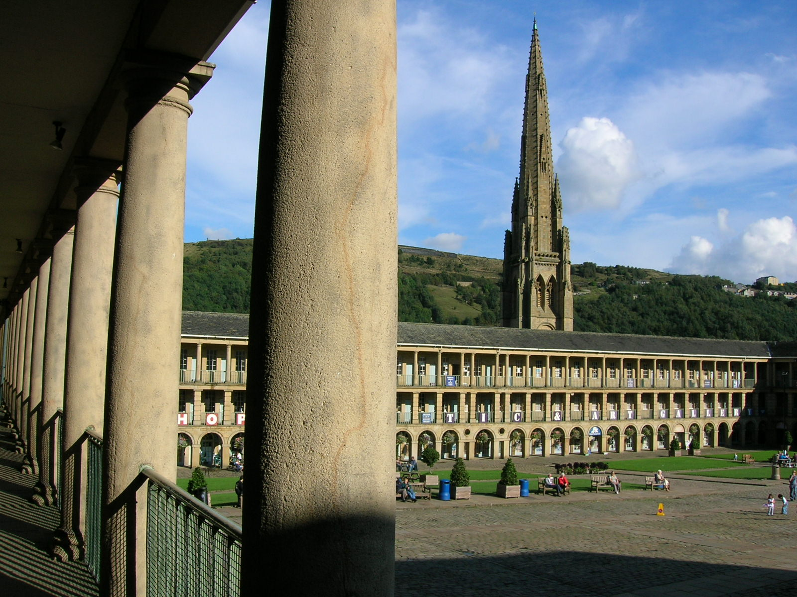 Piece Hall, Halifax